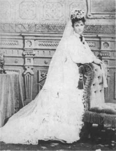 Mary Page Handy on her wedding day. Her mother, Larcena Pennington Page, survived an Apache attack and crawled 16 days to help. Mary's husband John Handy was killed when he confronted her divorce lawyer.